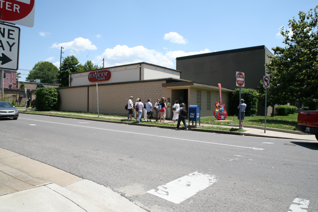 RCA Studio B Studio B has also been home to numerous innovations in recording practices, including the development of the "Nashville Number System," a musician's shorthand for notating a song's chord structure, which facilitates the creation of individual parts while retaining the integrity of the song. First made available to Country Music Hall of Fame and Museum visitors in 1977, RCA Studio B was donated to the Museum by the late Dan and Margaret Maddox in 1992. It was operated as an attraction until shortly before the opening of the Museum's new downtown facility in 2001.